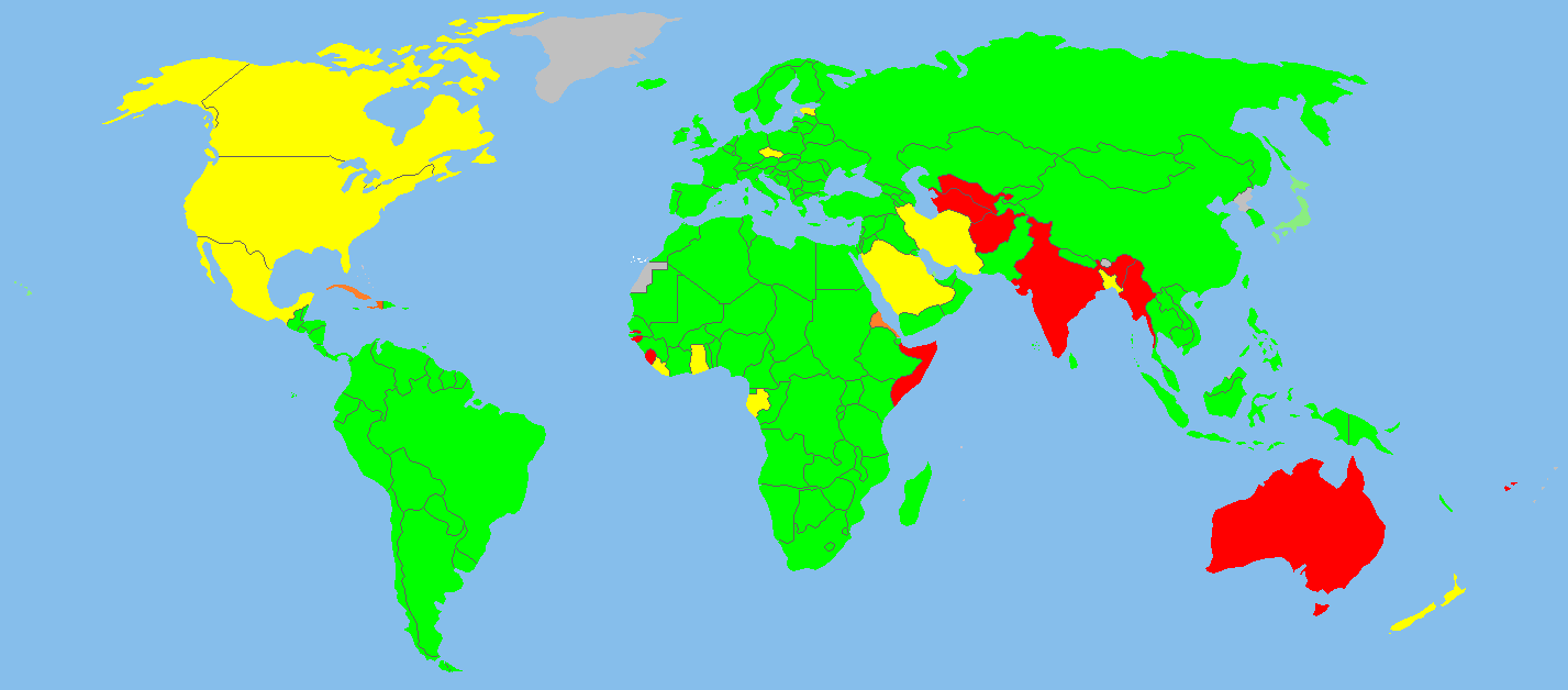 Countries which have ratified Conventions 138 and / or 182 from the International Labour Organisation, on child labour